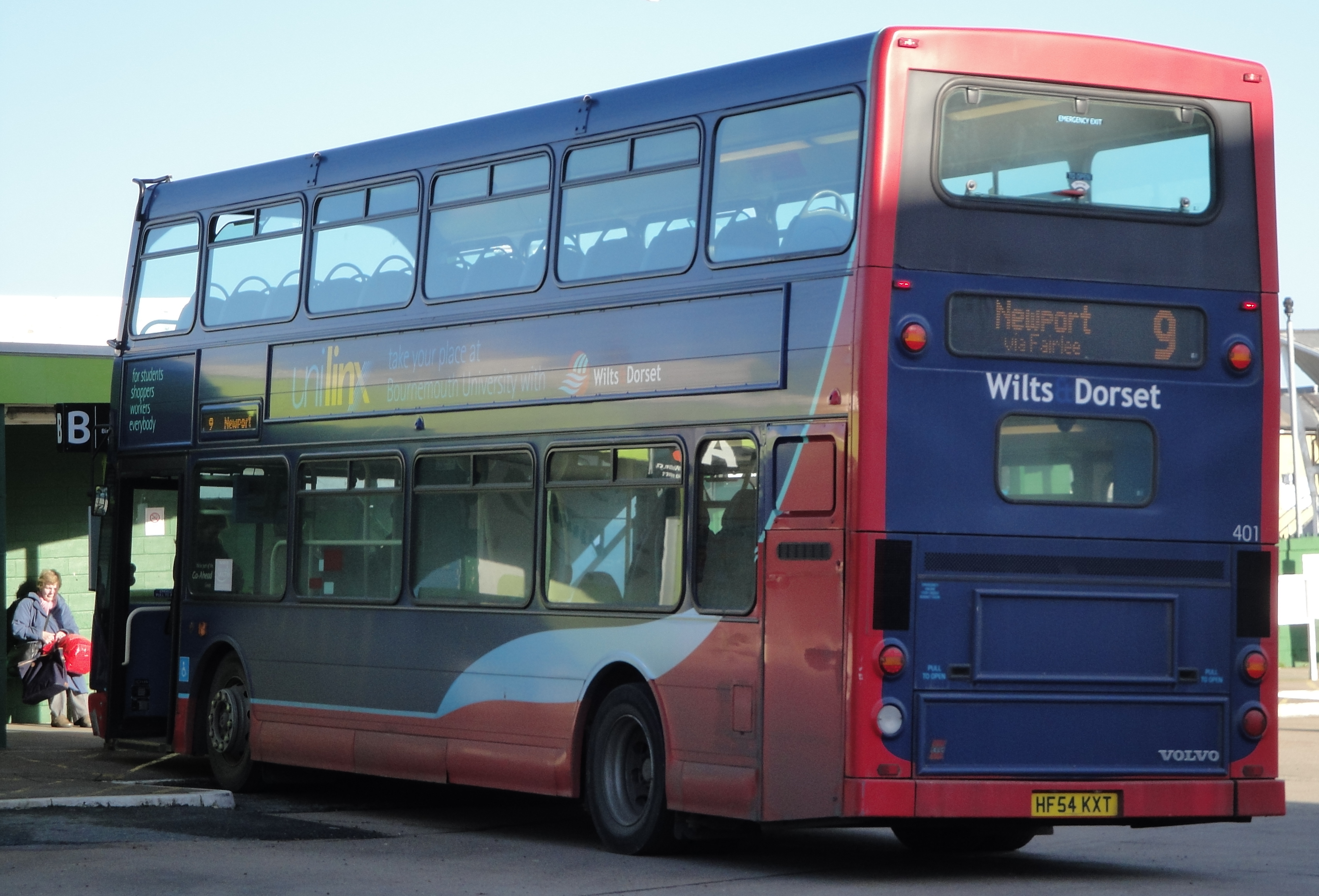 The rear of Wilts & Dorset 401 (HF54 KXT), a Volvo B7TL/East Lancs Myllennium Vyking on loan to Southern Vectis at Ryde bus station, Isle of Wight on route 9.